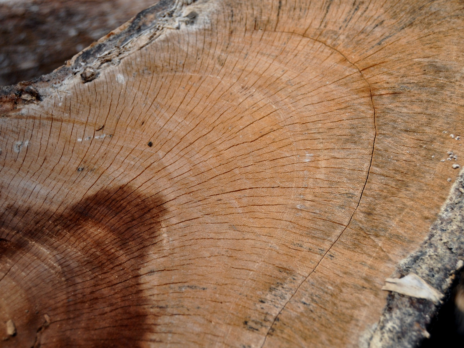 Transverse section of punuk (Artocarpus elasticus) wood; from Ketapang, West Kalimantan, Indonesia